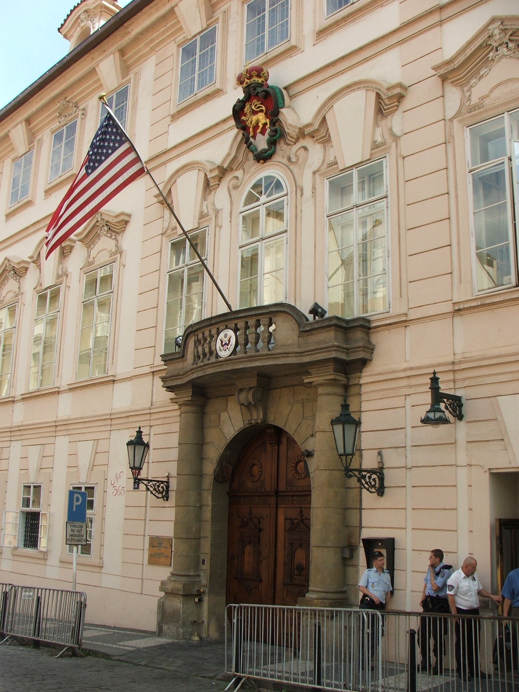 Schönborn Palace - seat of Embassy of the United States in Prague - Malá Strana, Czechia